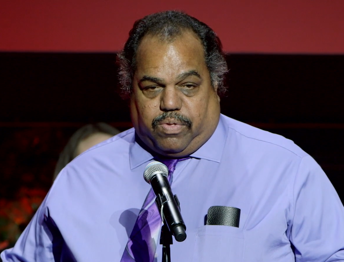 Daryl Davis in 2017